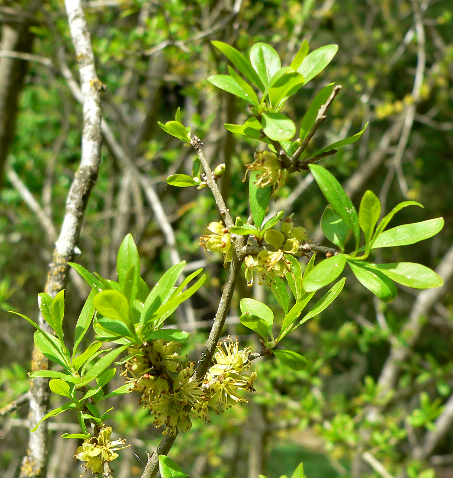 Photo of Forestiera pubescens at the Regional Parks Botanic Garden, Berkeley, California